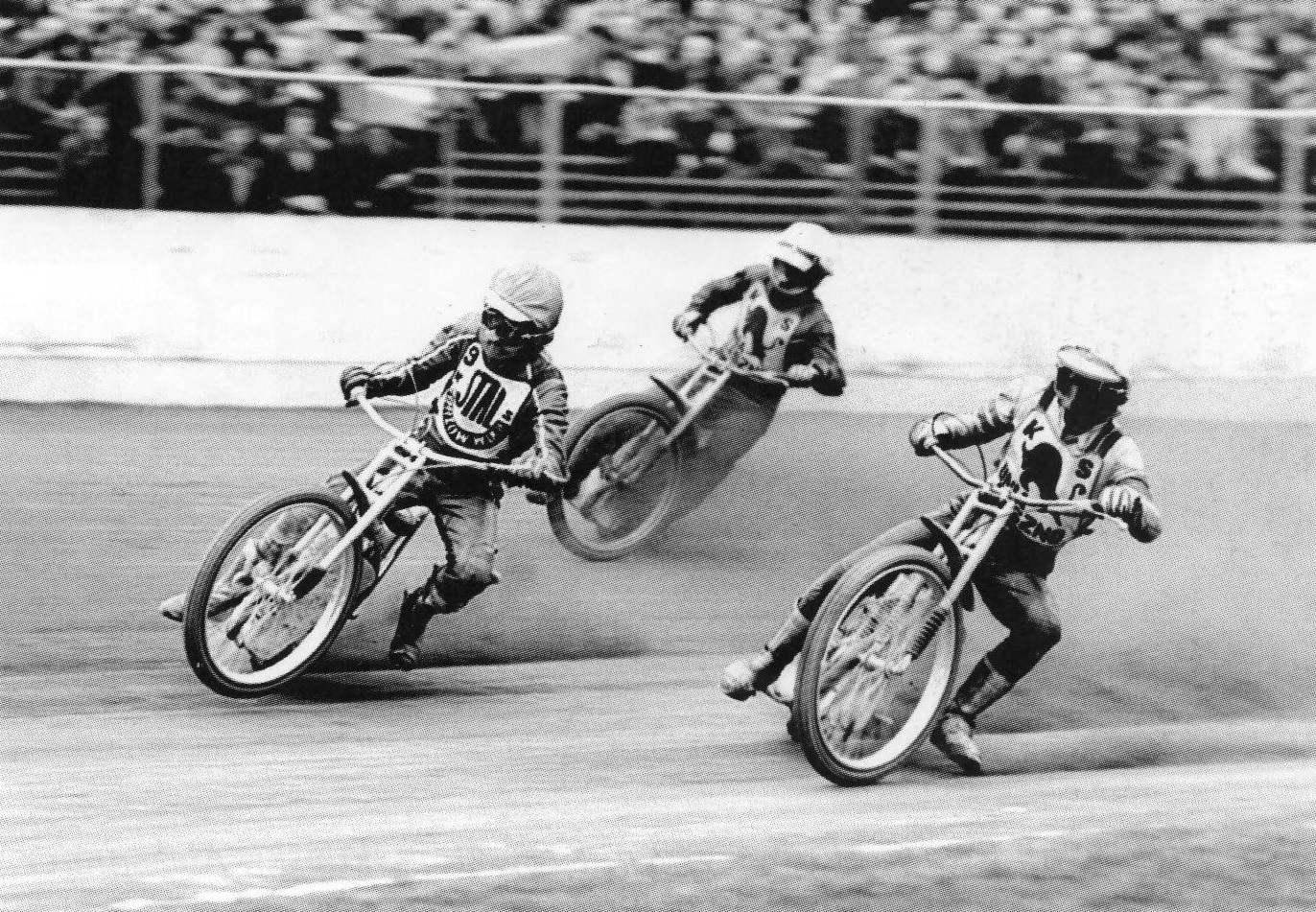 8 race of the match Stal - Unia L. 1981: Jerzy Rembas (red helmet), Ryszard Buskiewicz (white helmet), Roman Jankowski (yellow helmet)